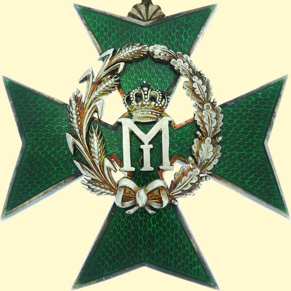 Romana Order of agricultural